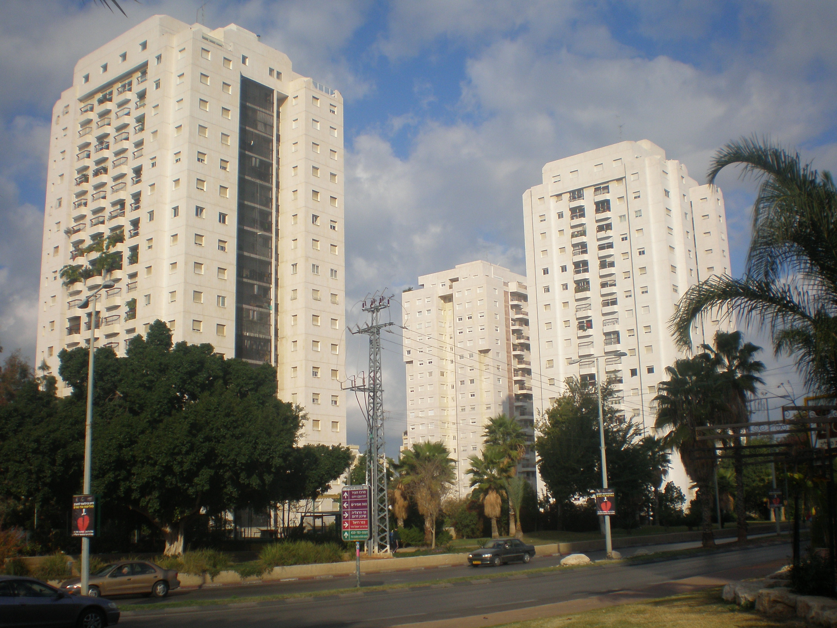 Apartment buildings in Neve Amirim, Herzliya, Israel